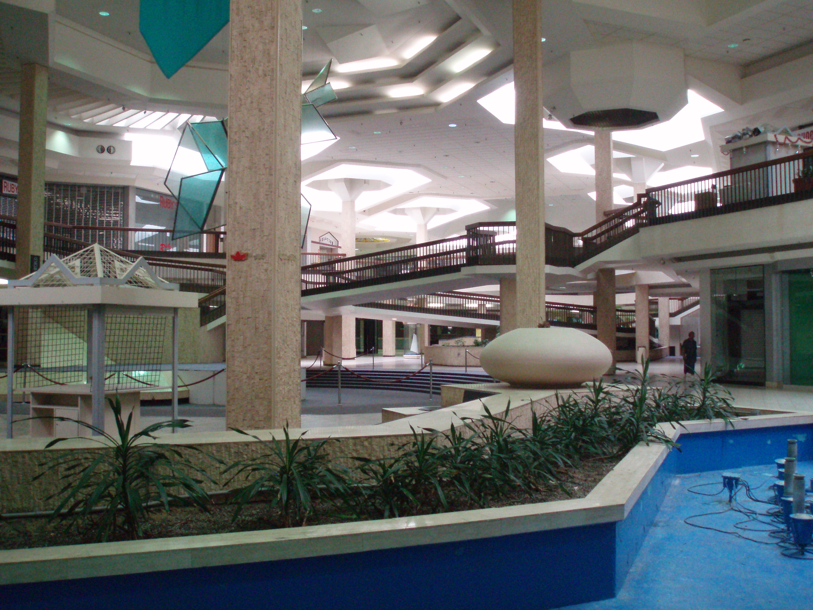 The interior of the mostly-empty Randall Park Mall in North Randall, Ohio